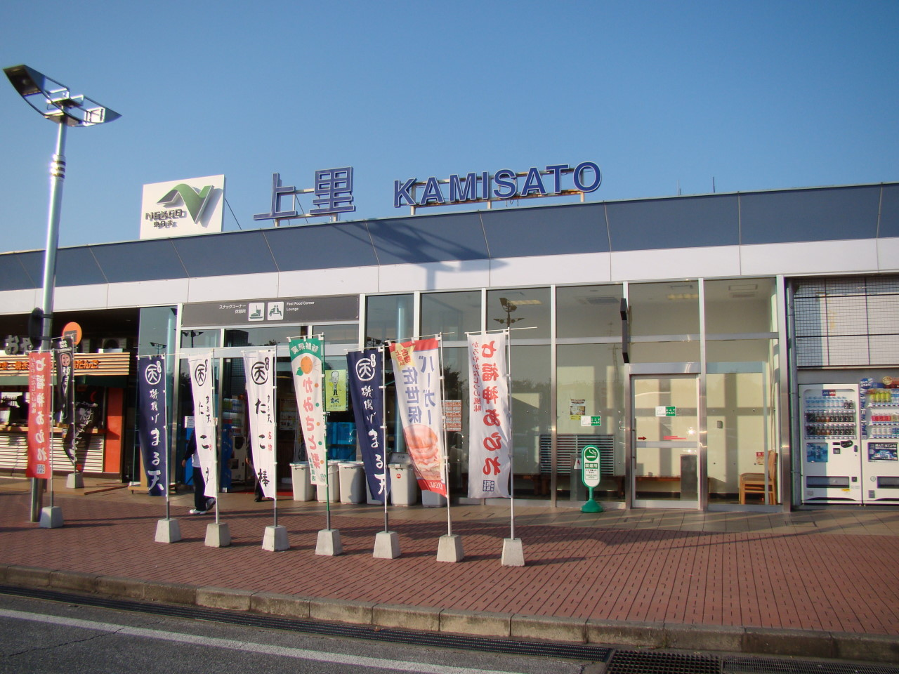 Kan-etsu expressway Kamisato service area Tokyo side Saitama Japan